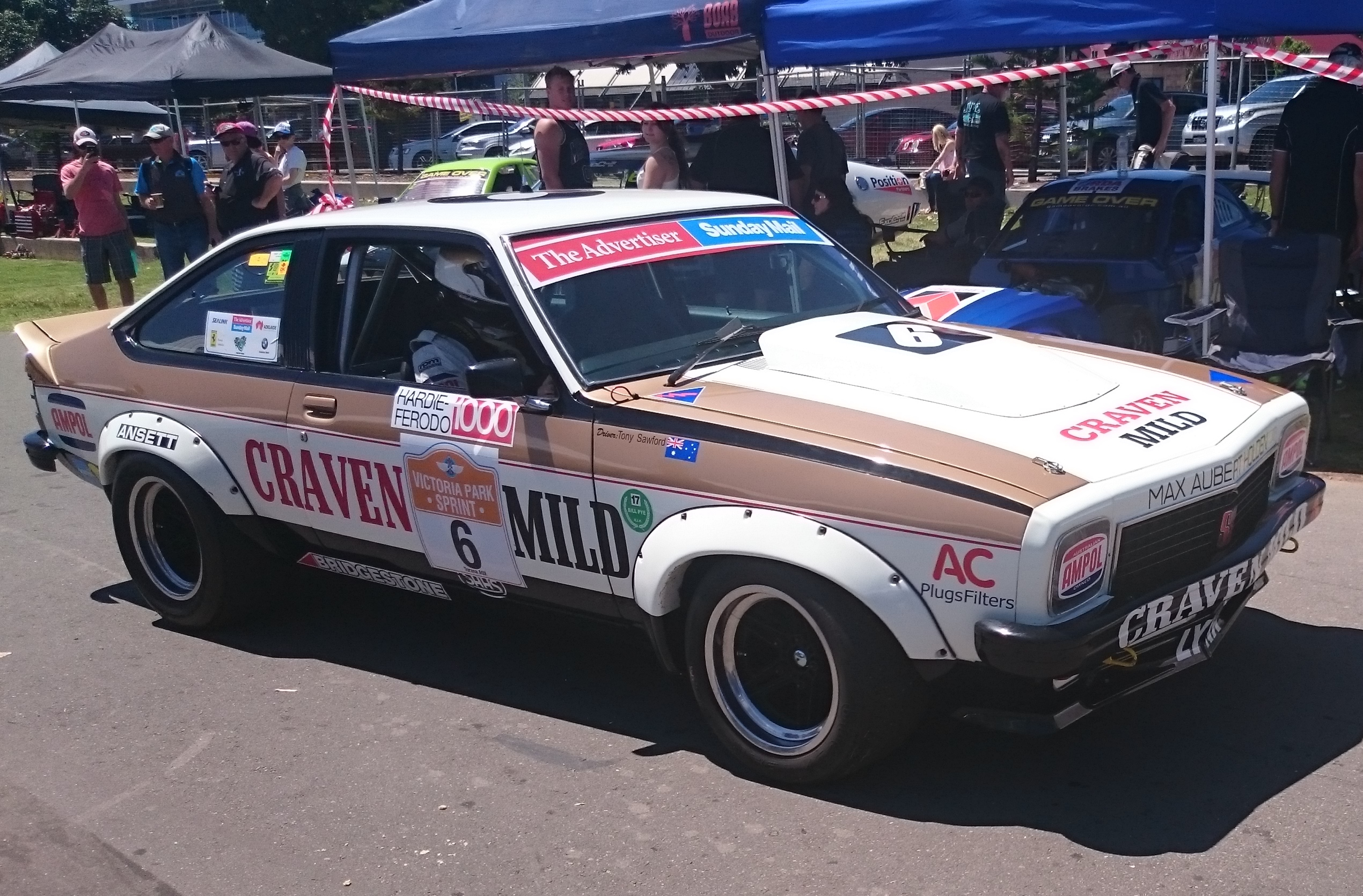 The Holden Torana SS A9X raced by Allan Grice at the 1978 Hardie-Ferodo 1000. The car is pictured at the 2015 Adelaide Motorsport Festival.